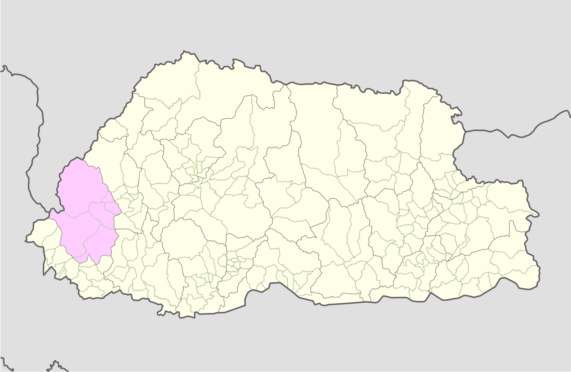 Haa Bhutan location map